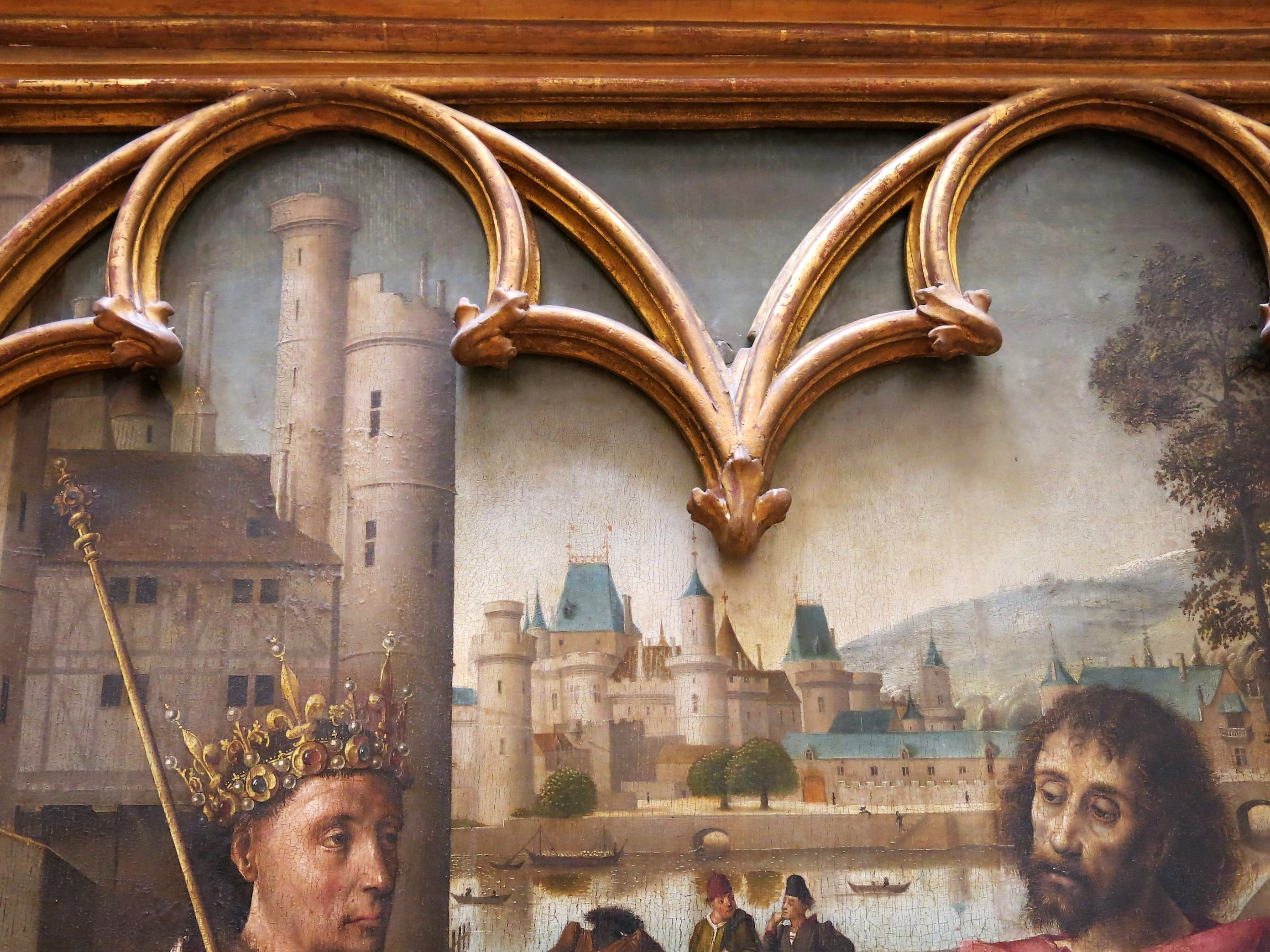 The tour de Nesle and the Louvre castle in a corner of the painting of the the Crucifixion of the Parlement of Paris.